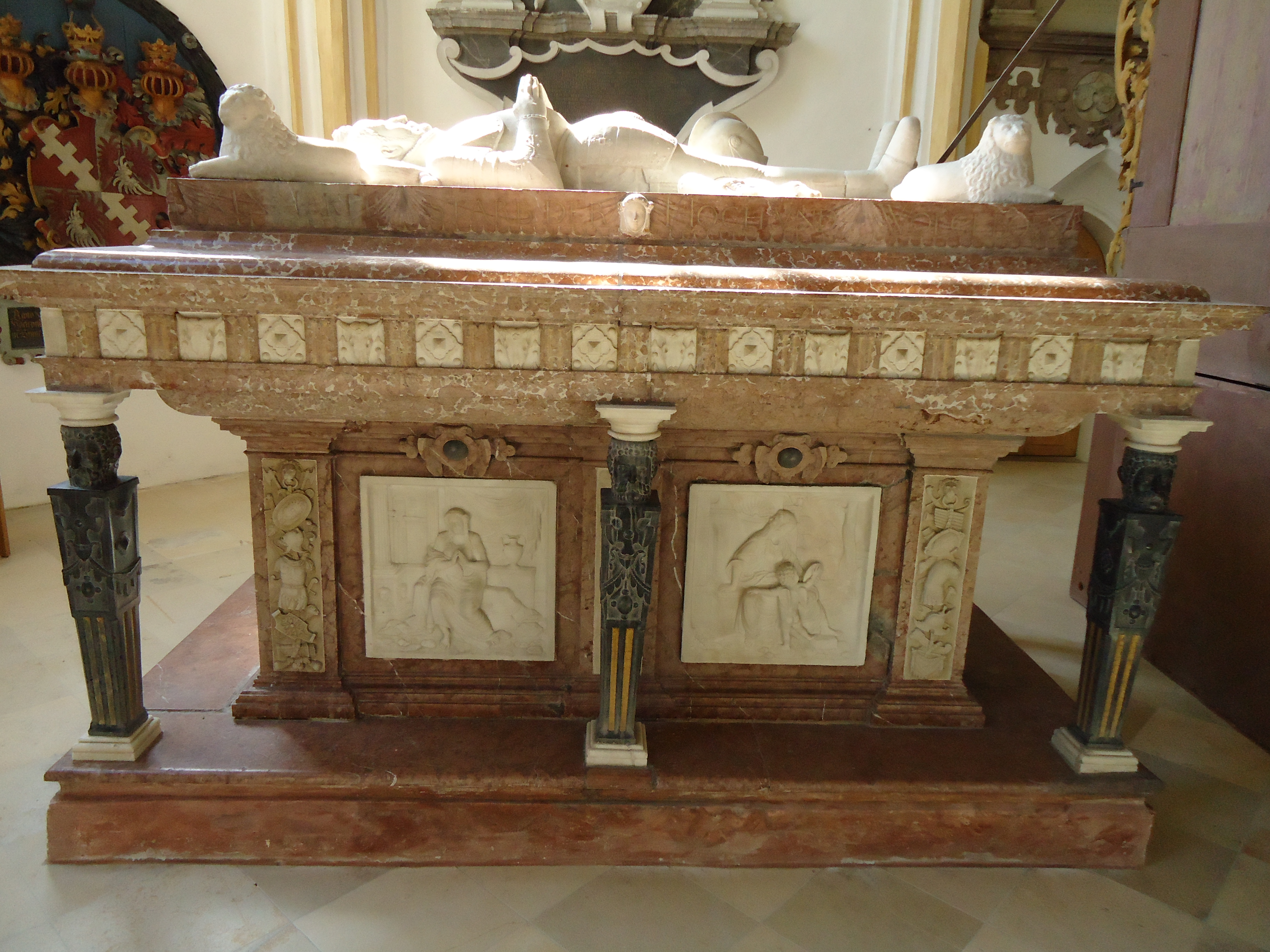 Kenotaph for Count Joachim von Ortenburg